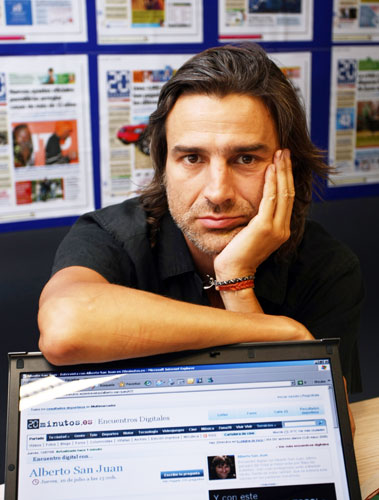 Spanish actor Alberto San Juan